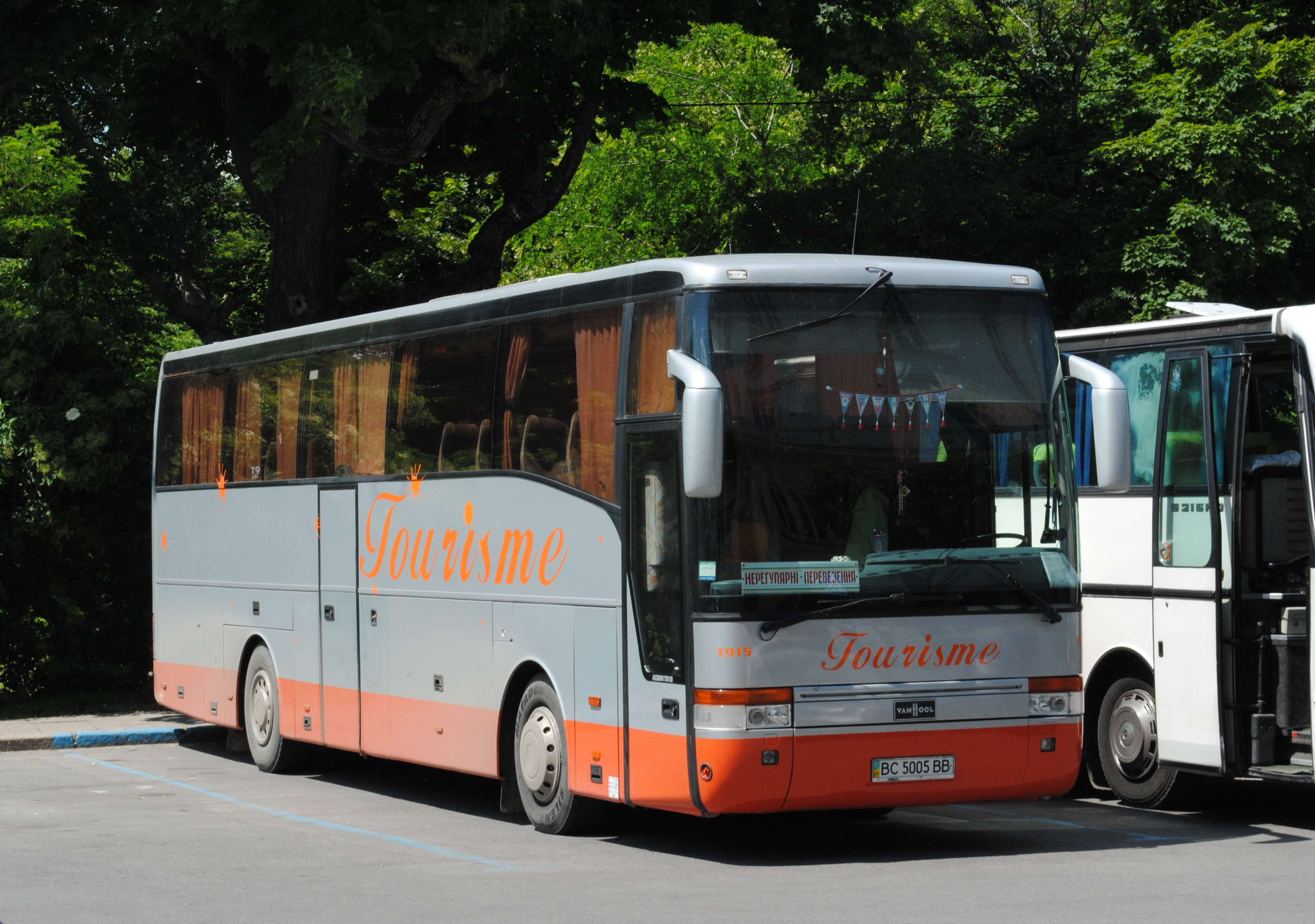 A Van Hool T915 bus from Lviv. It owns the plate number previously owned by Setra S315HD.